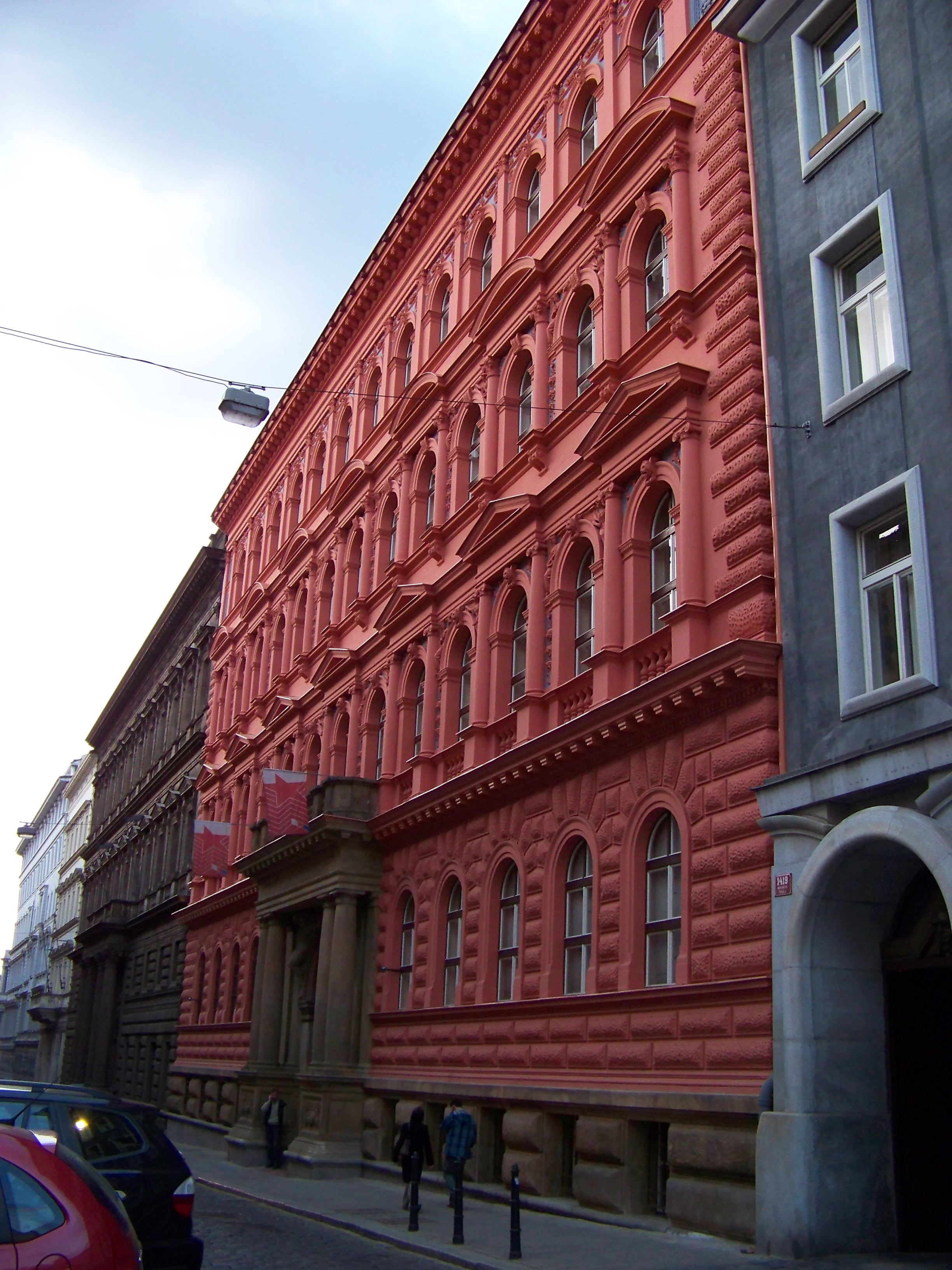 Prague-New Town, the Czech Republic. Politických vězňů 9.